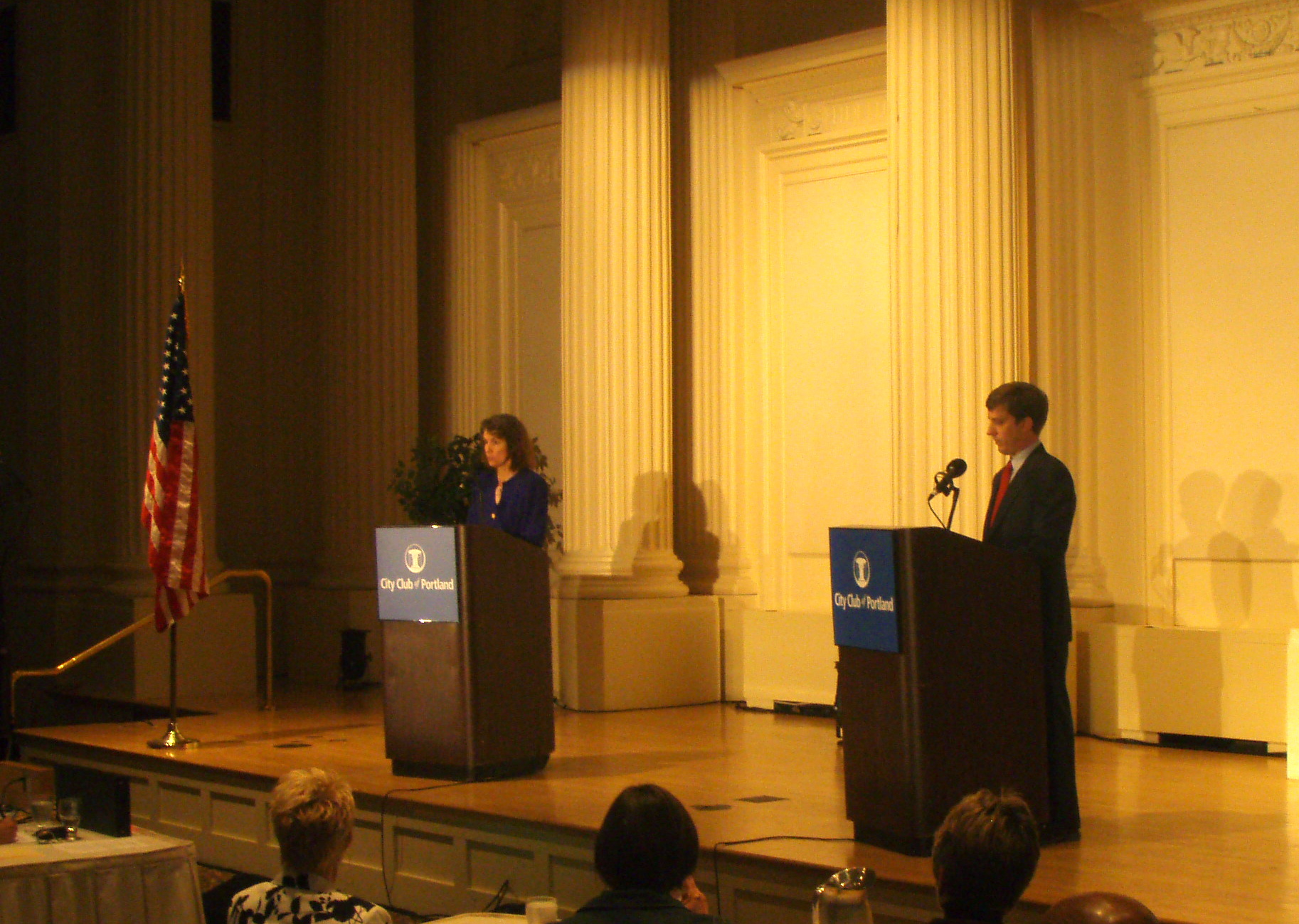 Portland City Council debate, sponsored by City Club of Portland, at the Governor Hotel, Portland, Oregon, United States. Candidates participating were Amanda Fritz and Charles Lewis.